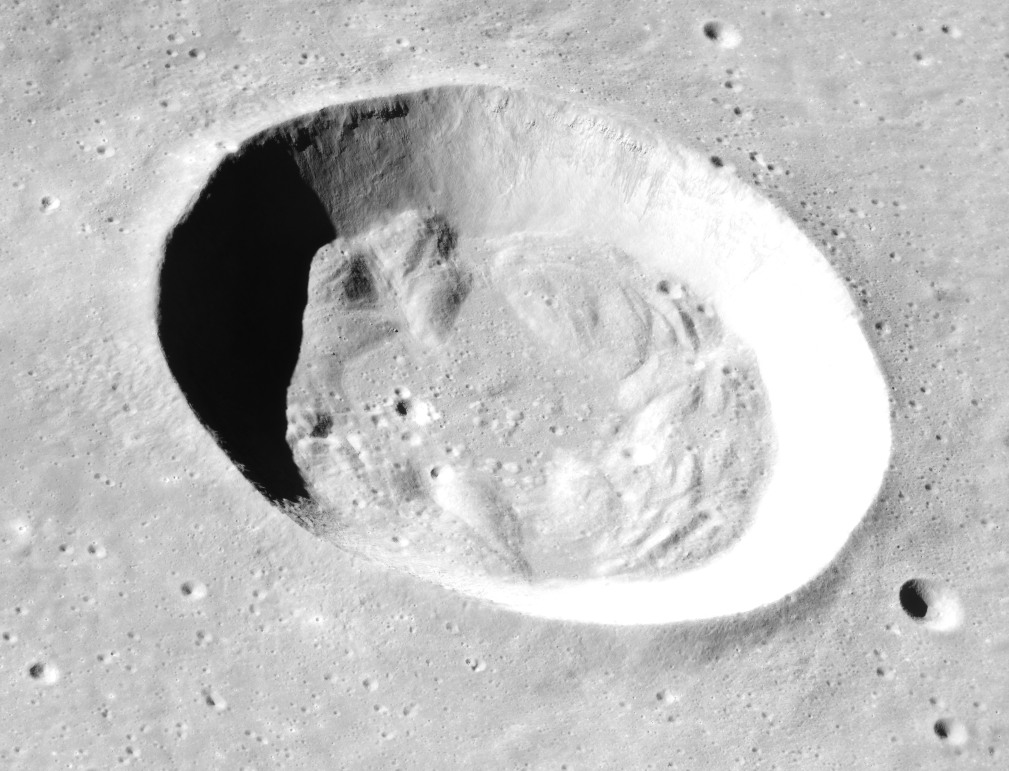 Bessel crater on the Moon, as seen from Apollo 15.